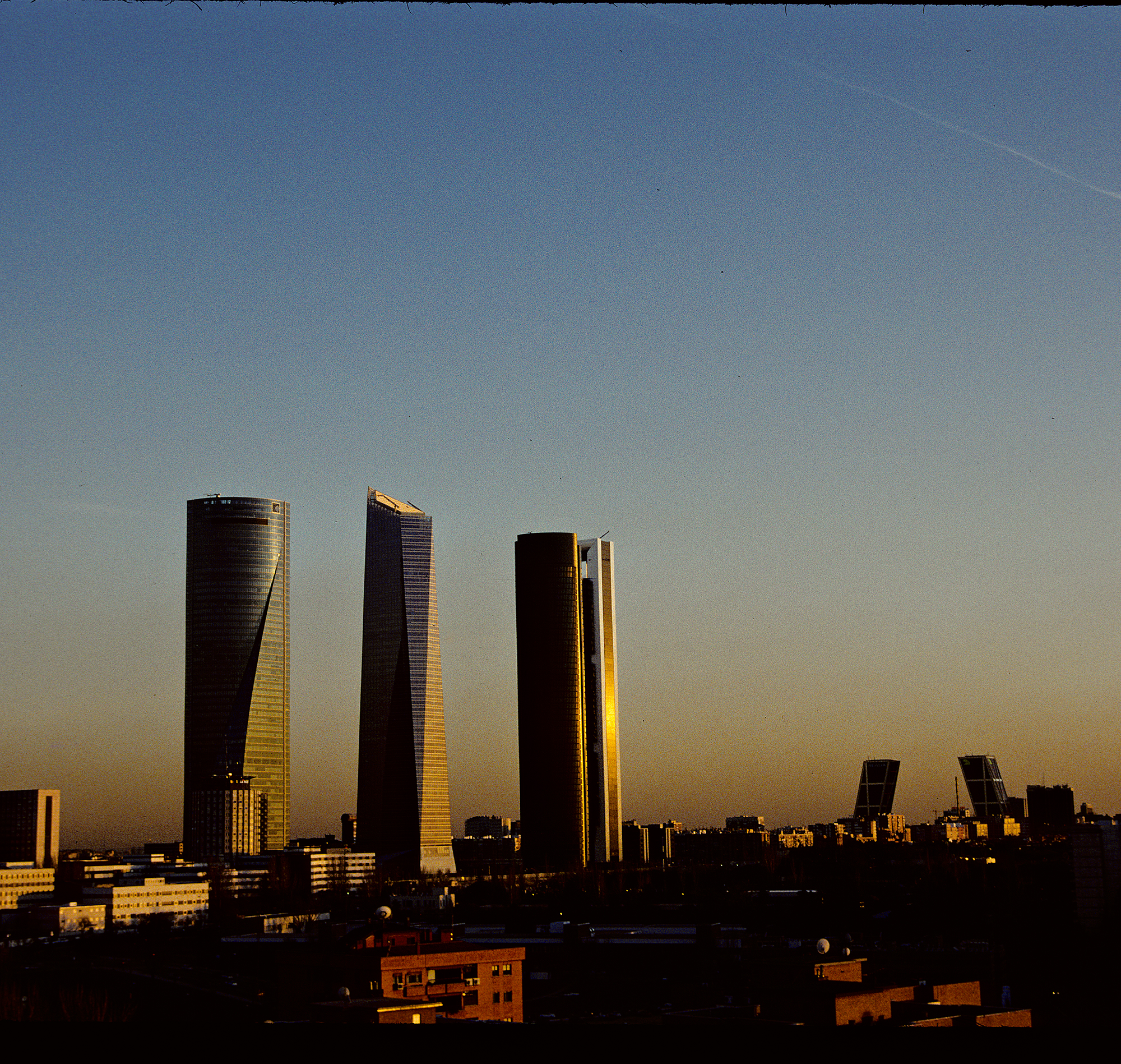 Sunset view of Cuatro Torres Business Area in Madrid (Spain) from Ramón y Cajal Hospital. At the right, the two Puerta de Europa ("Gate of Europe") inclined buildings.